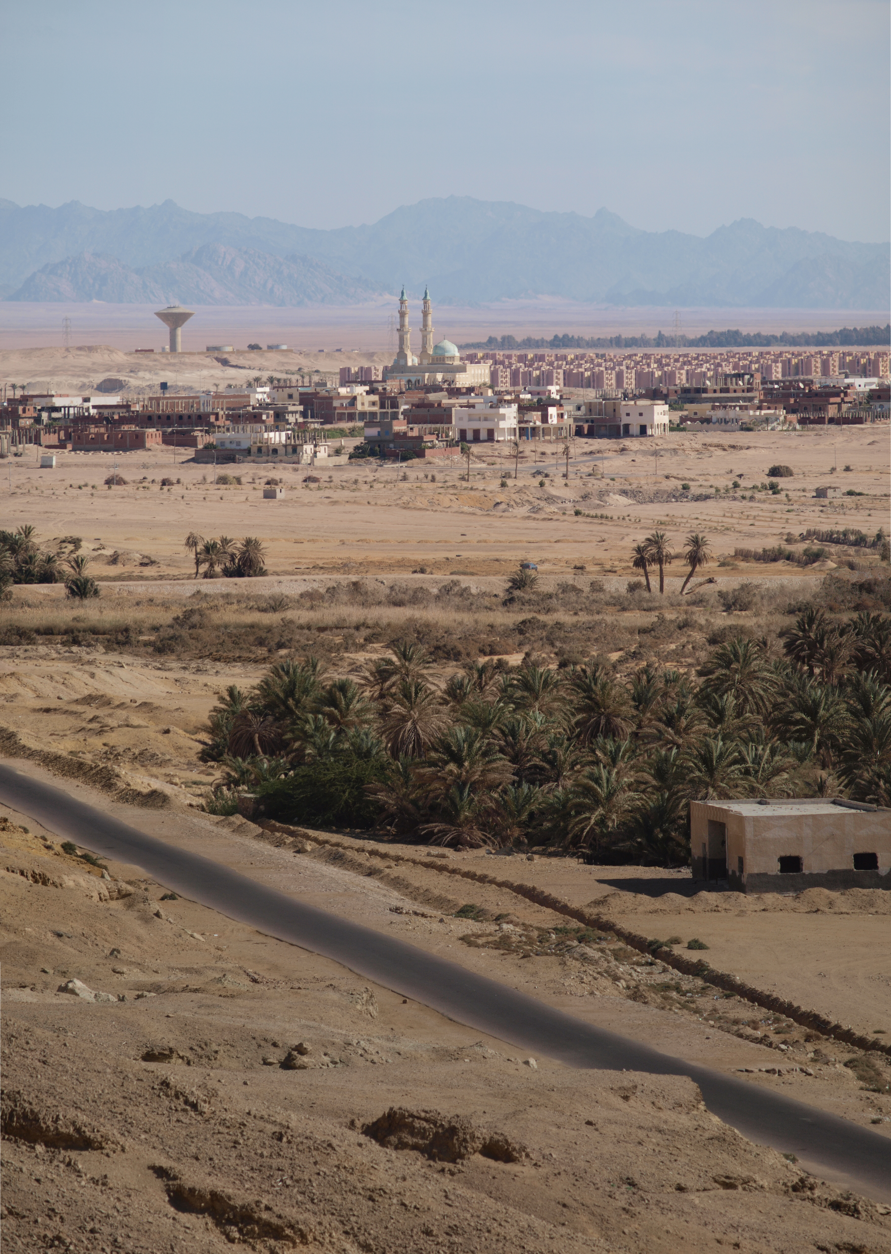 El-Tor. South Sinai. Egypt.